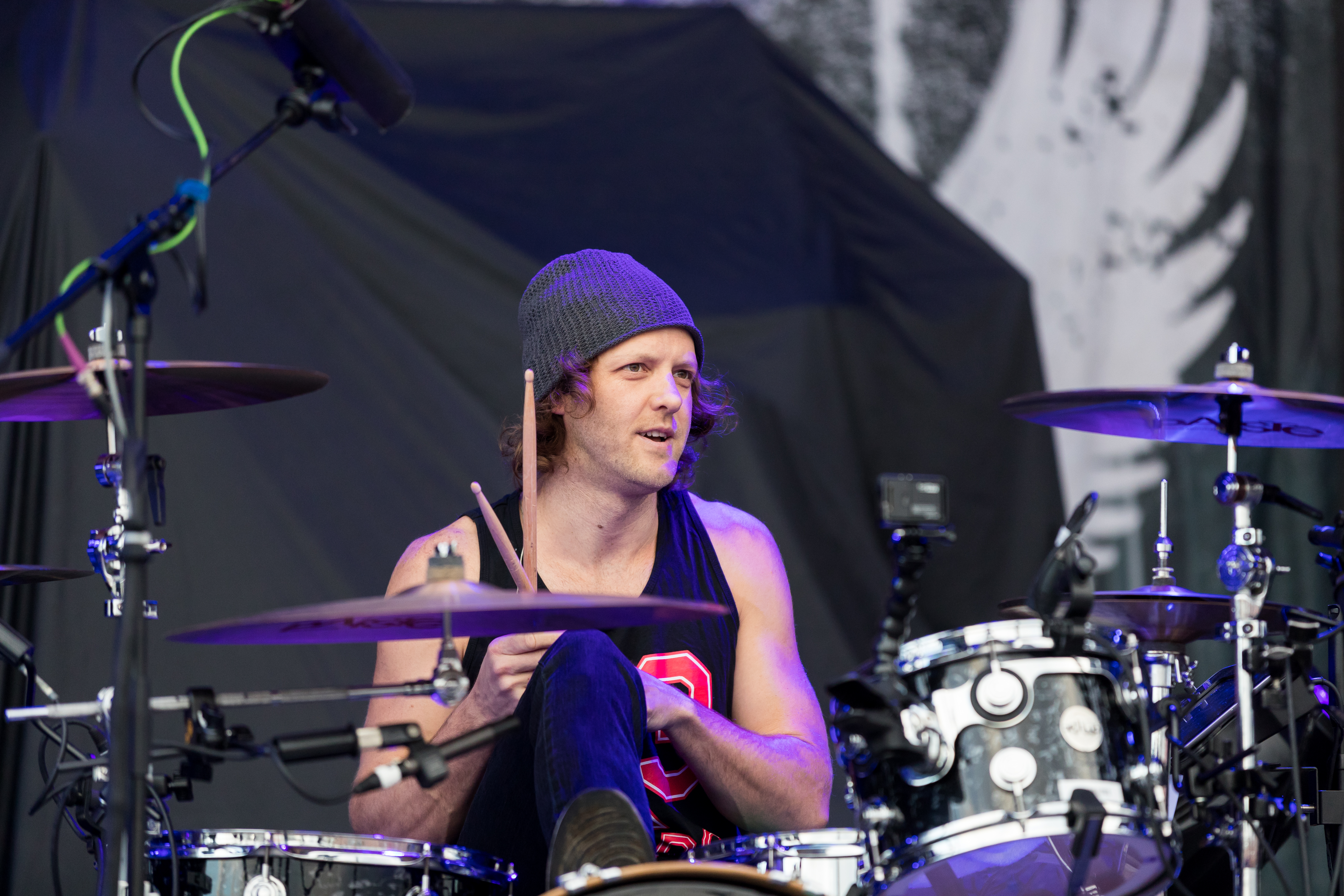 Hollywood Undead @ Rock am Ring 2018